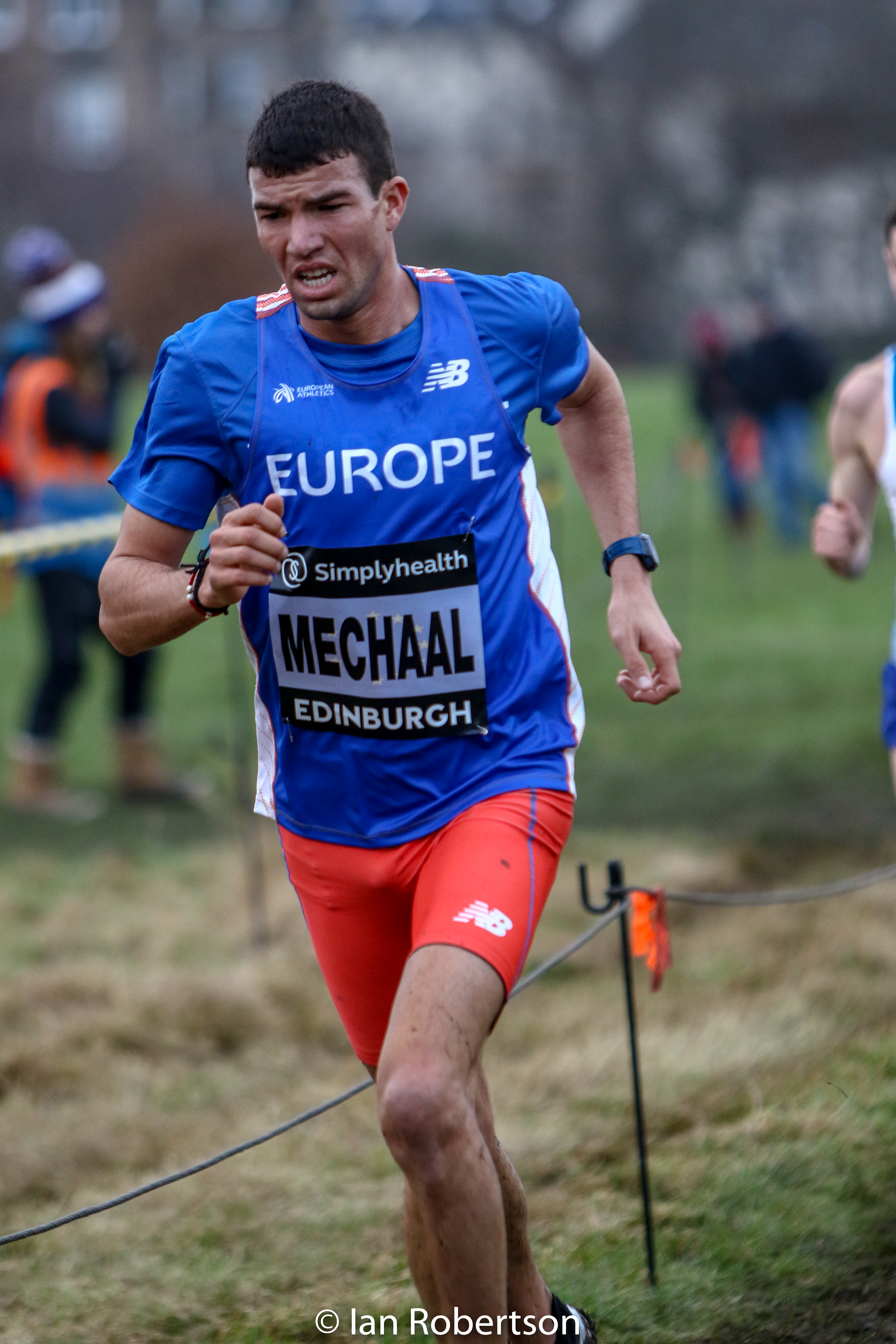 Great Edinburgh International Cross Country 2018 – Senior Men's 8km